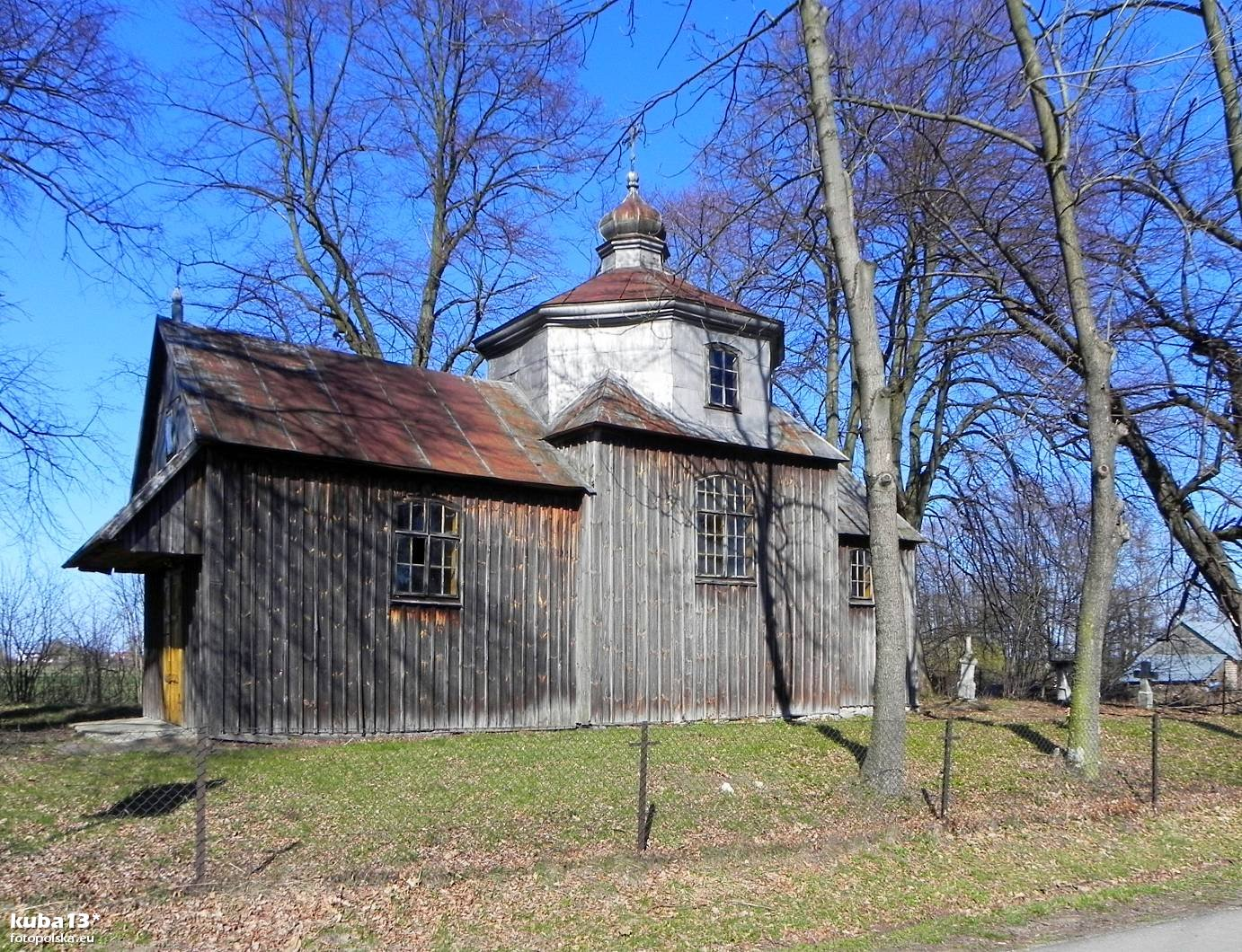 Saint Michael Archangel Orthodox churche in Moszczanica village